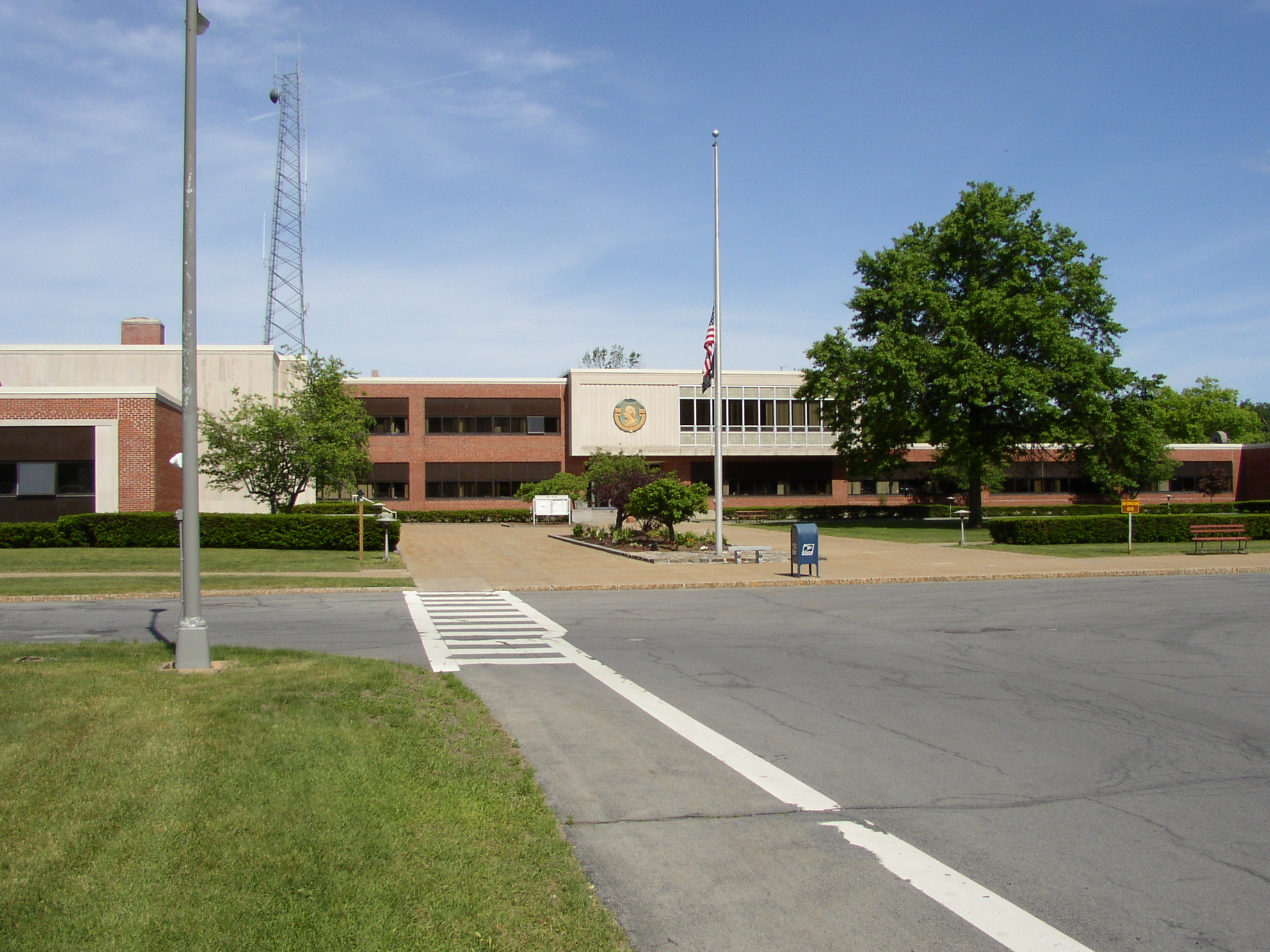 Warren County Municipal Center in the town of Queensbury, New York (Lake George ZIP code).